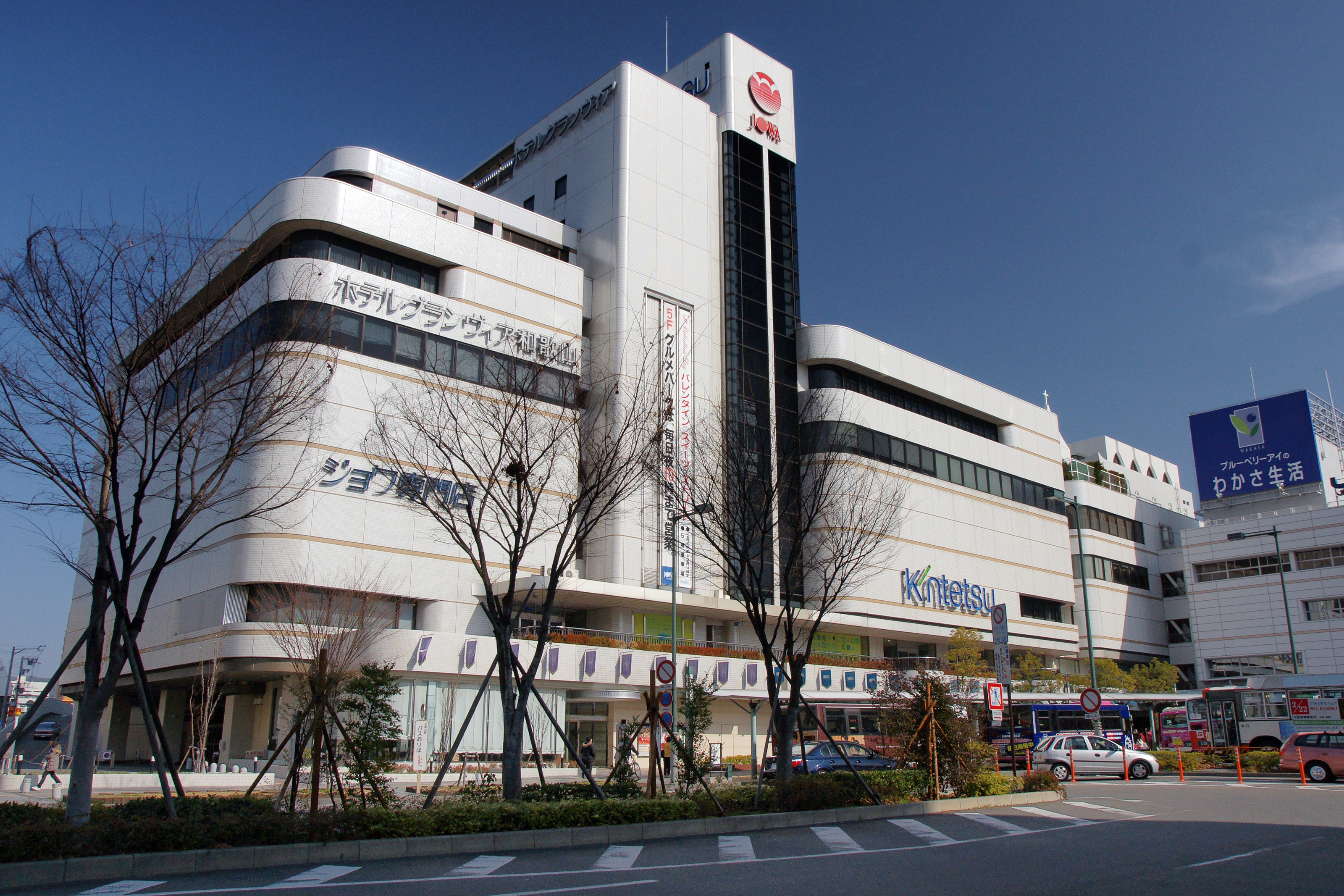 Kintetsu Department Wakayama Store, Wakayama, Wakayama prefecture, Japan